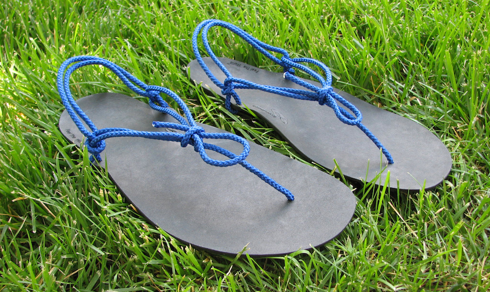 These are a pair of huaraches made by Invisible shoes/Xero Shoes